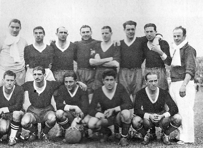 The Independiente team that won its 3rd. Primera División title in 1938. That year Independiente also won the Copa Aldao and Copa Adrián Escobar.